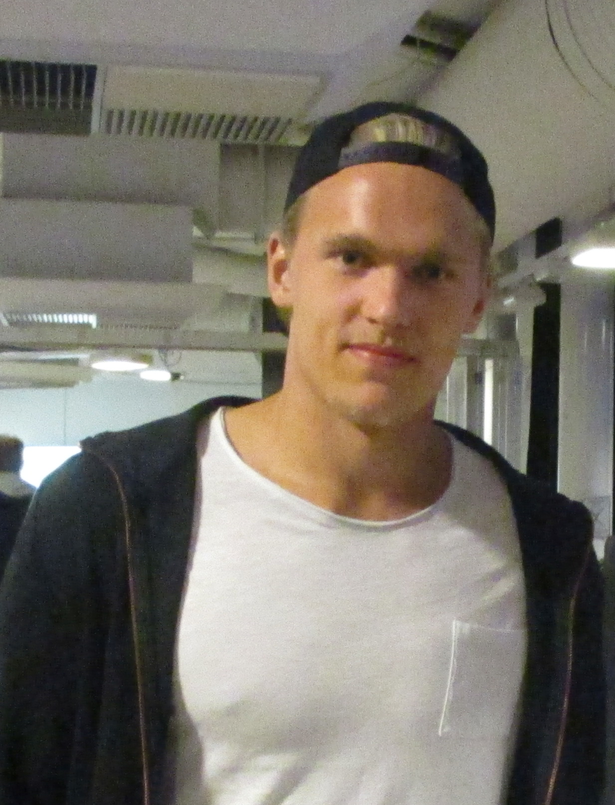 Mikko Rantanen after the practise game between KHL teams Jokerit vs. SKA Saint Petersburg at Metro Areena in Espoo, Finland on 11th of August 2016.